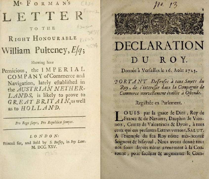 The new Austrian Imperial chartered company set up by Flemish merchants in the early 1720s to trade with the East Indies (the Ostend Company) was met with considerable hostility from the established English, Dutch and French East India companies. On the left, the first page of an open letter denouncing the "pernicious" Imperial company. On the right, the first page of a French royal edict prohibiting French subjects from doing business with the new company.